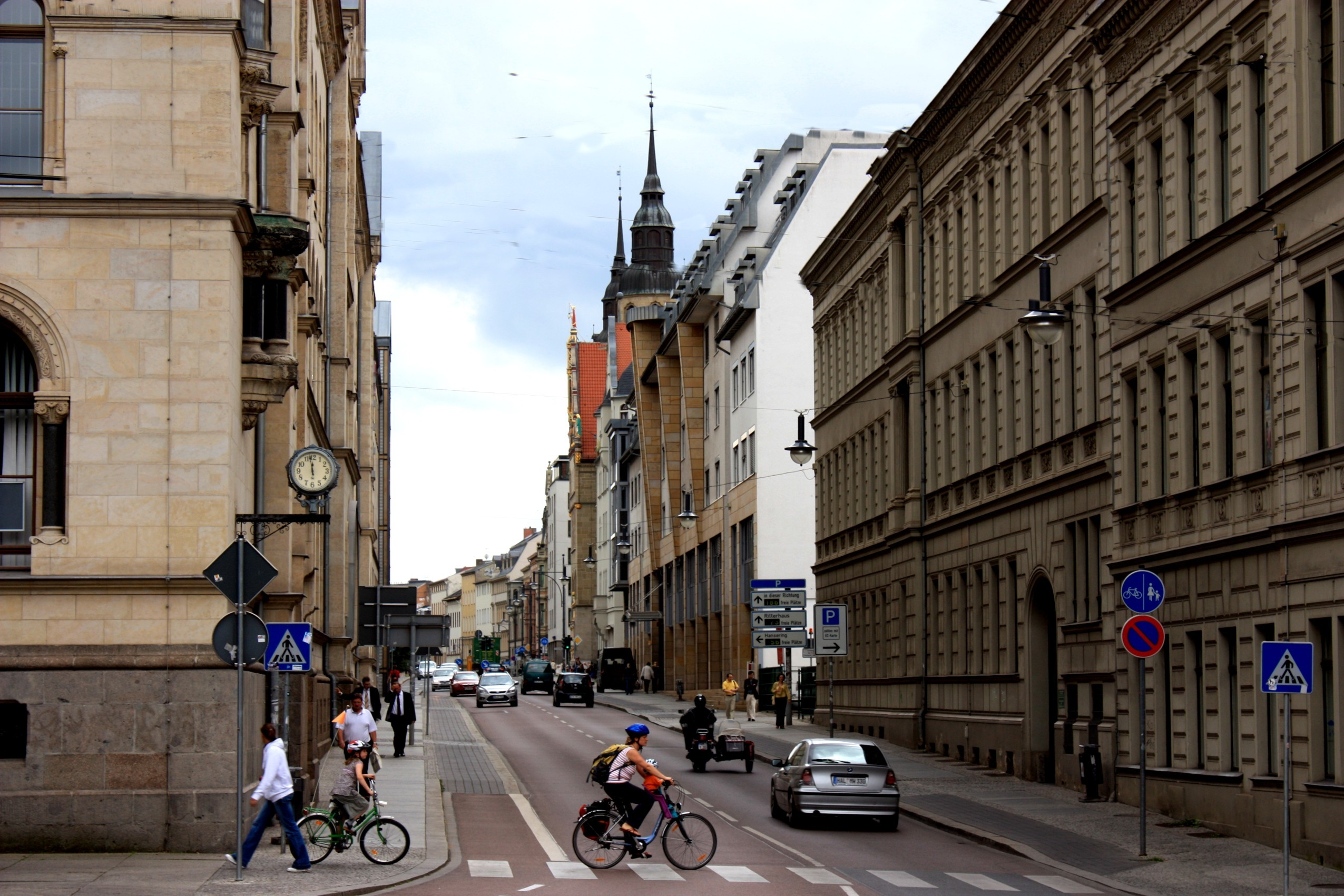 Halle (Saale), the street "Hansering"